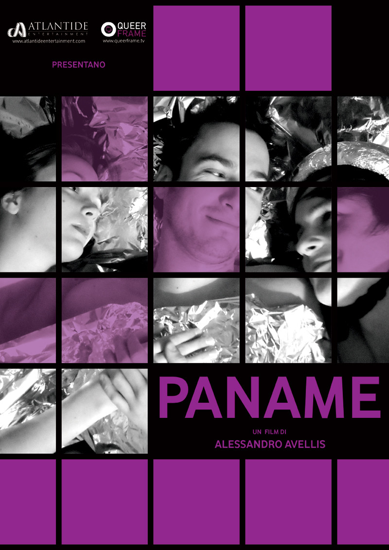 PANAME